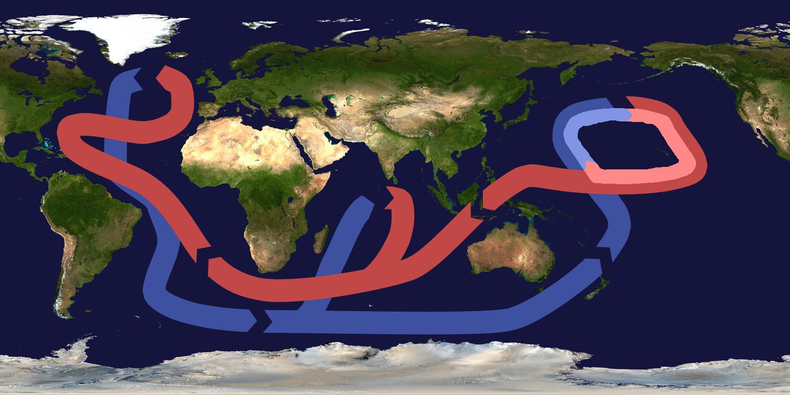 On the basis of File:Thermohaline circulation.png, addition of emphasis on granda nordpacifika rubokirlo („Great Pacific Garbage Patch“) - More convenient versions are welcome!